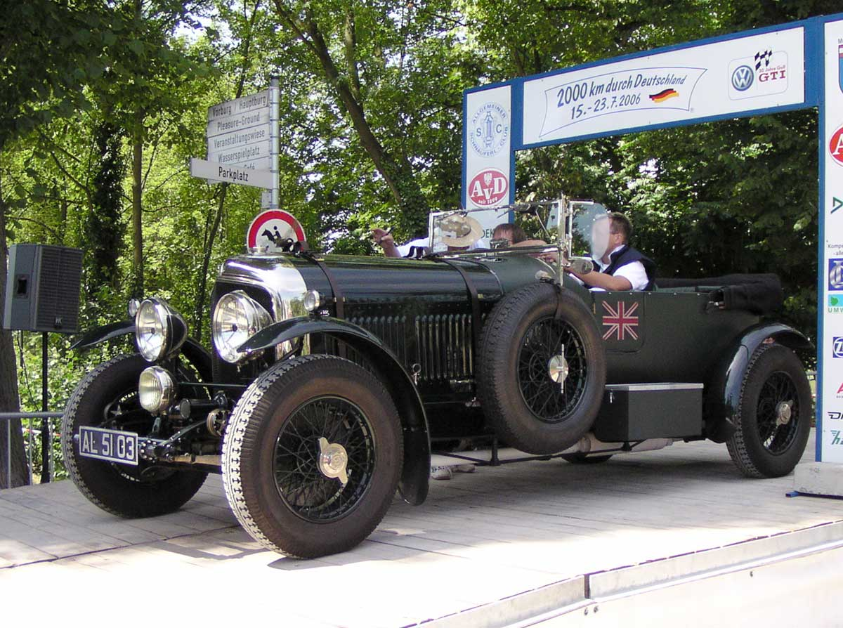 Bentley Special, built 1935, at the 2000 km durch Deutschland in Mönchengladbach. Of mysterious origins, registered in Holland as a 1935 Rolls-Royce 20/25.